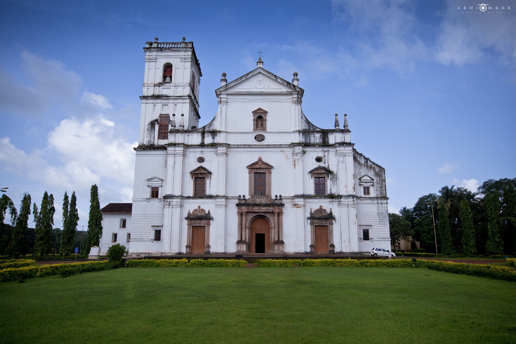 Se’ Cathedral